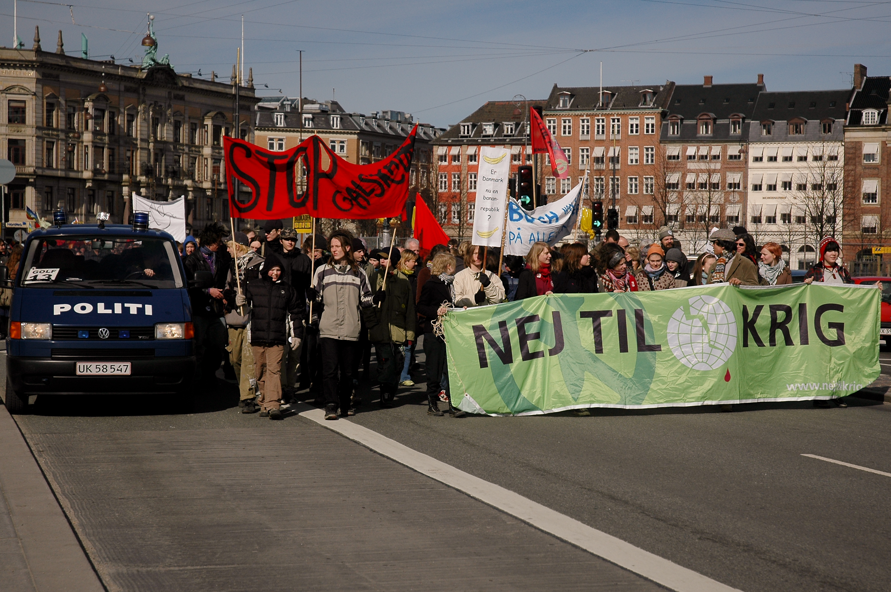 Demonstration against the war in Iraq, 19 March 2005 in Copenhagen, Denmark